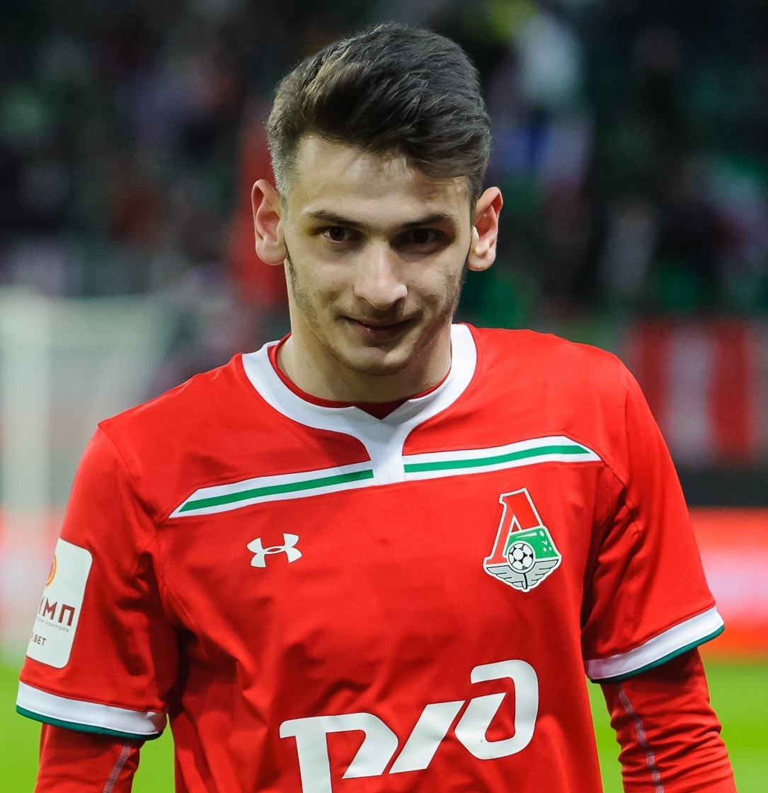 Khvicha Kvaratskhelia with FC Lokomotiv Moscow in a Russian Cup semifinal game against FC Rostov.